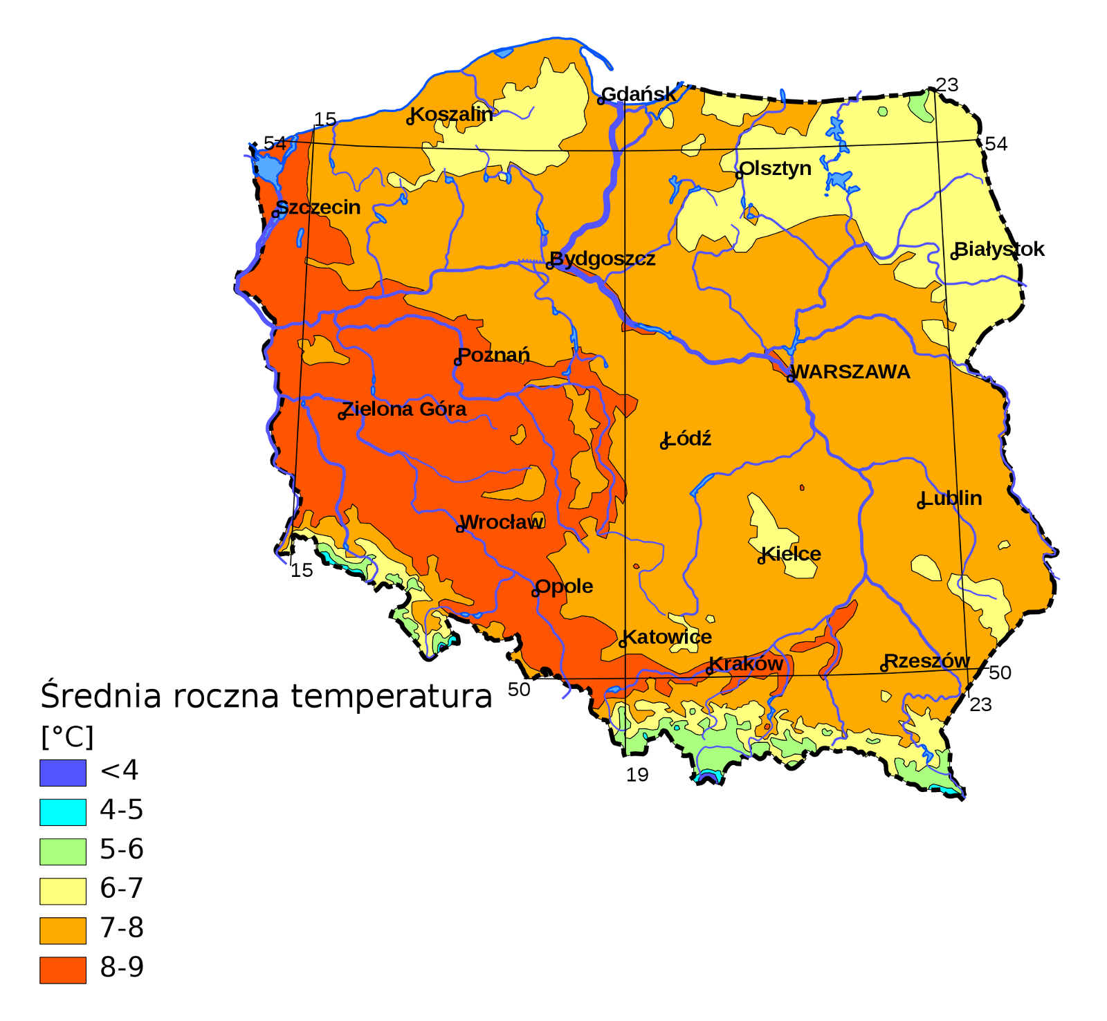 Average temperature in Poland; created with QuantumGIS 1.4, source files